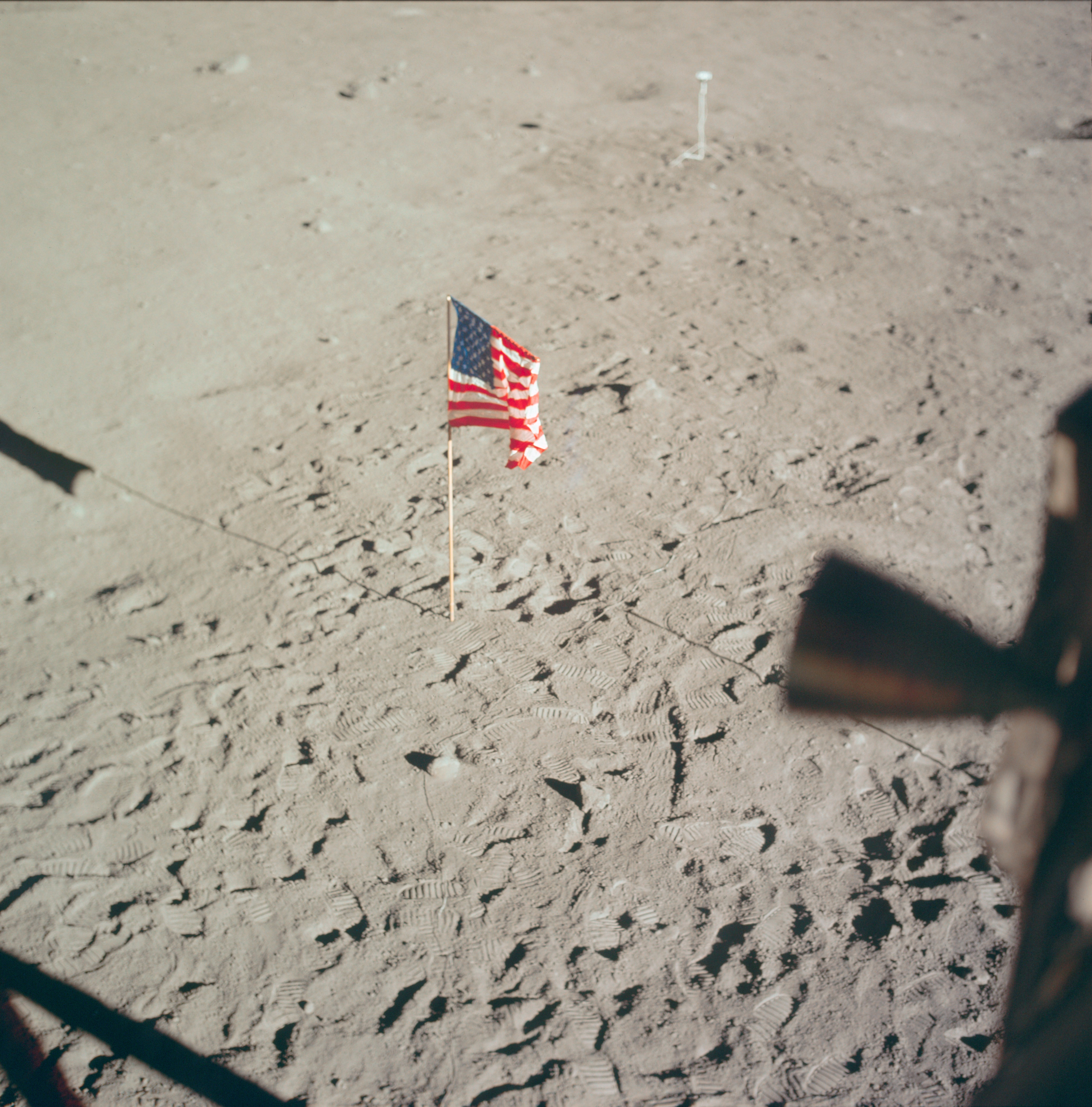 The flag of the United States, deployed on the surface of the moon, dominates this photograph taken from inside the Lunar Module (LM). The footprints of astronauts Neil A. Armstrong and Edwin E. Aldrin Jr. stand out very clearly. In the far background is the deployed black and white lunar surface television camera which televised the Apollo 11 lunar surface extravehicular activity (EVA). While astronauts Armstrong, commander, and Aldrin, lunar module pilot, descended in the Lunar Module (LM) "Eagle" to explore the Sea of Tranquility region of the moon, astronaut Michael Collins, command module pilot, remained with the Command and Service Modules (CSM) "Columbia" in lunar orbit.